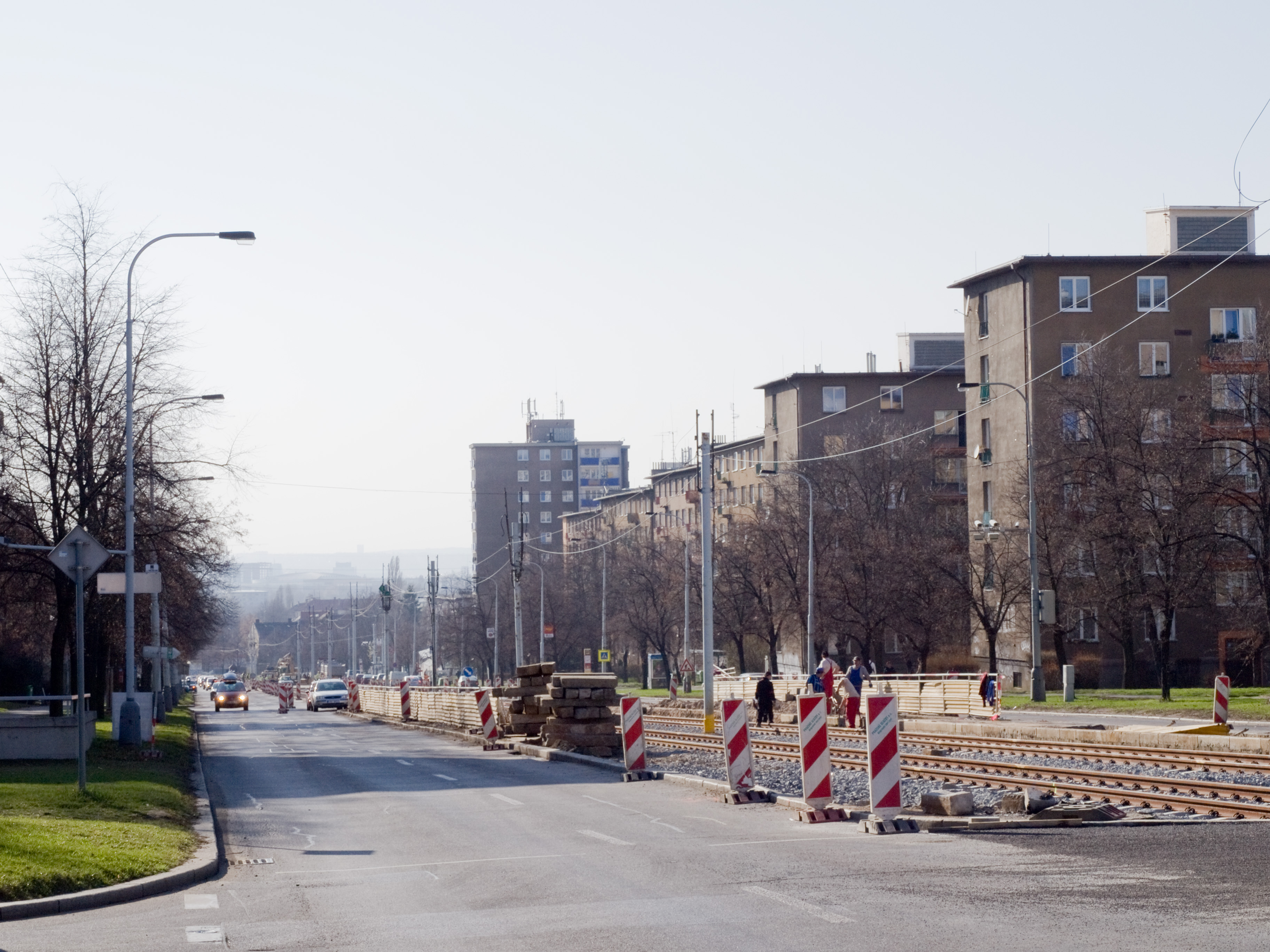 Poděbradská from Slévačská, Reconstruction of tram track Starý Hloubětín – Lehovec, Prague 14